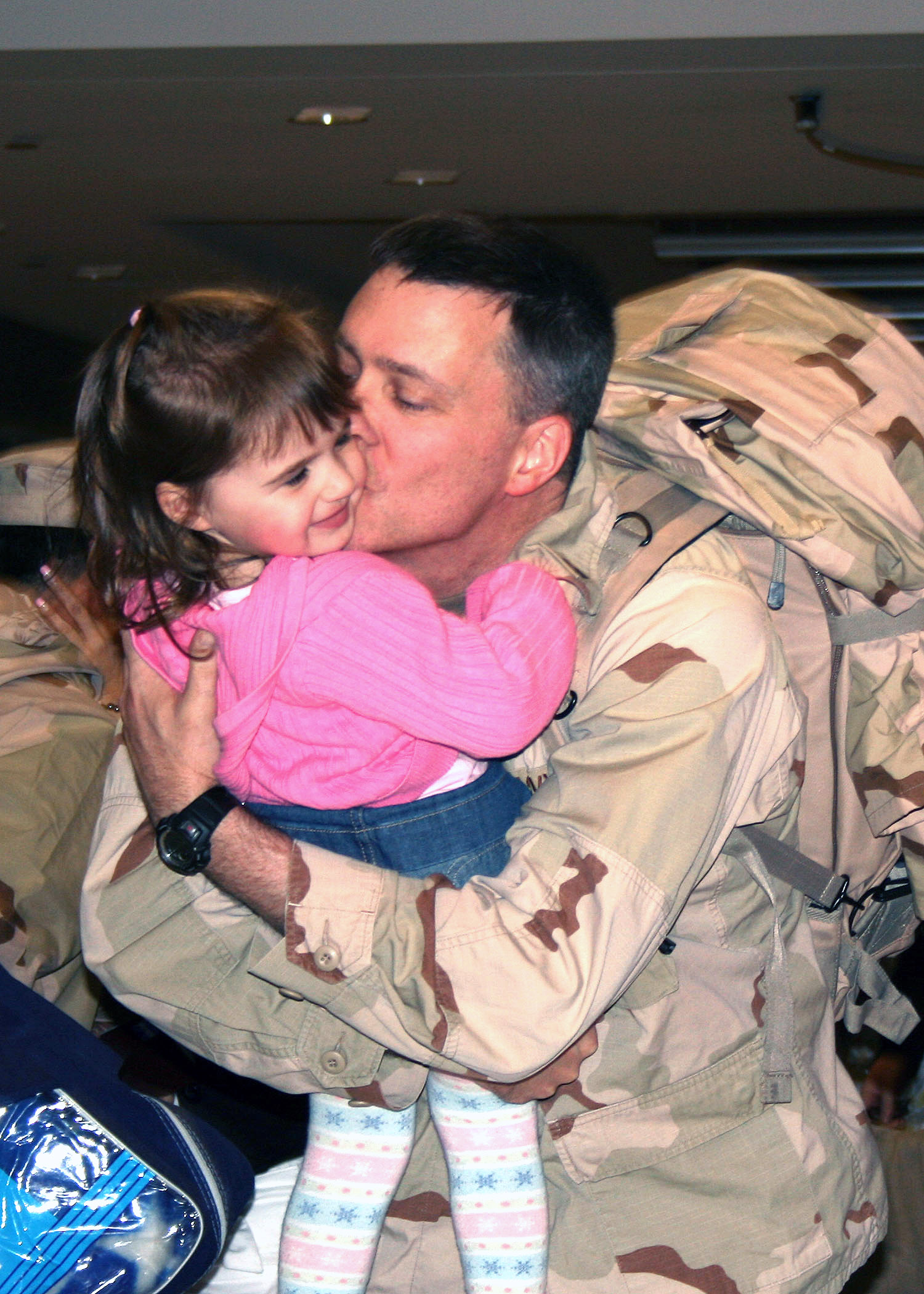 NORFOLK, Va. (Feb. 10, 2008) Lt. Robert O'Connell, assigned to Combined Joint Task Force-Horn of Africa (CJTF-HOA), kisses his daughter after returning to the Naval Air Terminal at Naval Station Norfolk. O'Connell and more than 75 Sailors returned from a 12-month deployment as staff of CJTF-HOA. The Sailors deployed to Djibouti to fill vital staff billets and to serve a crucial role in a region of strategic importance. U.S. Navy photo by Mass Communication Specialist 2nd Class Julie Matyascik (Released)